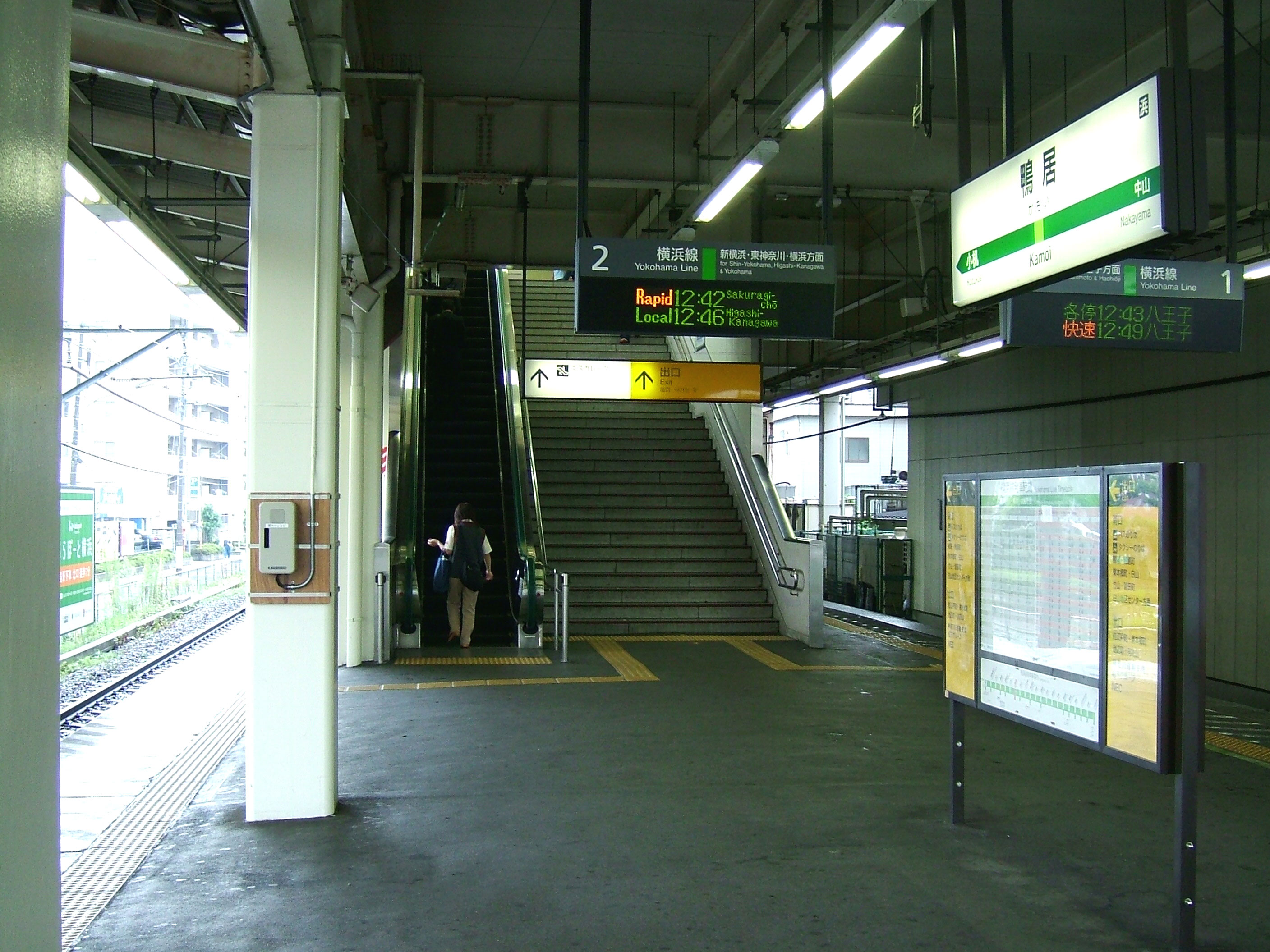 Kamoi Station platform (East Japan Railway Yokohama Line)